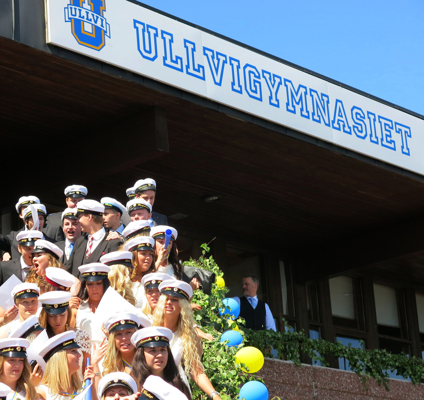 Graduation ceremony at Ullvigymnasiet